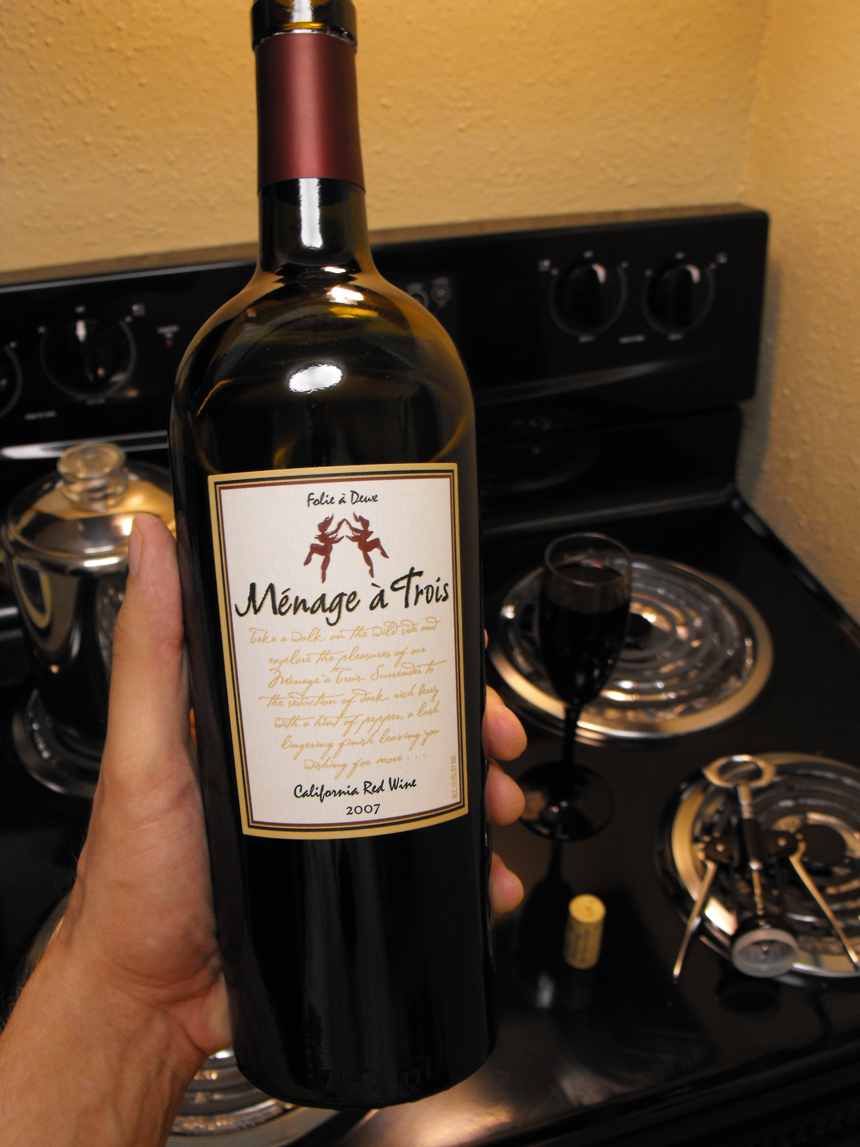 Menage a Trois wine from the California winery Folie a Deux